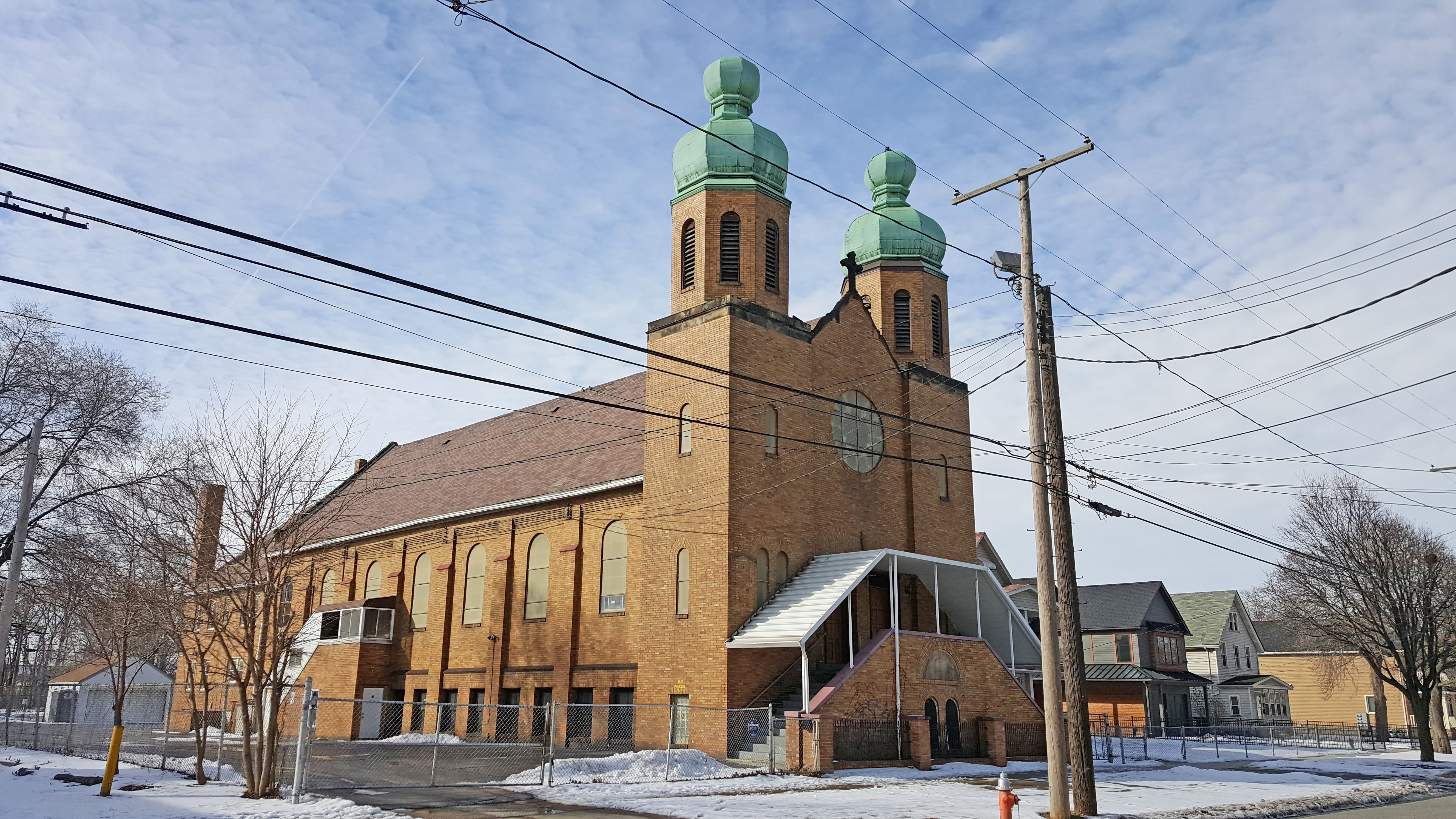 Southeast view of the main entrance and towers of St. Vladimir's Ukrainian Orthodox Church located at 2280 W. 11th Street in the Tremont neighborhood of Cleveland, Ohio, in the United States. St. Vladimir's parish was founded in 1924 by immigrants from western Ukraine. The congregation worshipped in the basement of a home a half block away from the future church site. The first pastor was the Very Rev. Gregory Chomicky, an incredibly important and influential figure in the history of the Ukrainian Orthodox Church in America. Property was purchased in the Tremont neighborhood in 1926. Rev. Chomicky departed for another congregation in 1930, and was replaced by the Very Rev. Michal Zaparyniuk. Construction began under Rev. Zaparyniuk. A basement hall was completed in 1932, and the cornerstone for the upper church laid on November 26, 1932. Services were held in this basement until the church was completed. The $60,000 ($1.61 million in 2018 dollars) church was finished and opened on September 5, 1933. The architect of the church is not known. The structure ws built by contractors John Petriwsky and Frank Mural. The shift of population to the suburbs caused a substantial decreased in the congregation. Land was purchased, and a Ukrainian Orthodox Cathedral began construction. The old Parma City Hall was purchased in 1959 and renovated into a chapel, which helped serve the suburban congregants. The cathedral on State Road in Parma was consecrated in 1967. The old St. Vladimir's was sold in 1952 to the Spanish Assembly of God Church. It was sold again in 2018 to Olympic Forest Products, a pallet maker and pallet management service firm, for $650,000. It will undergo a $1.65 million renovation into office space.